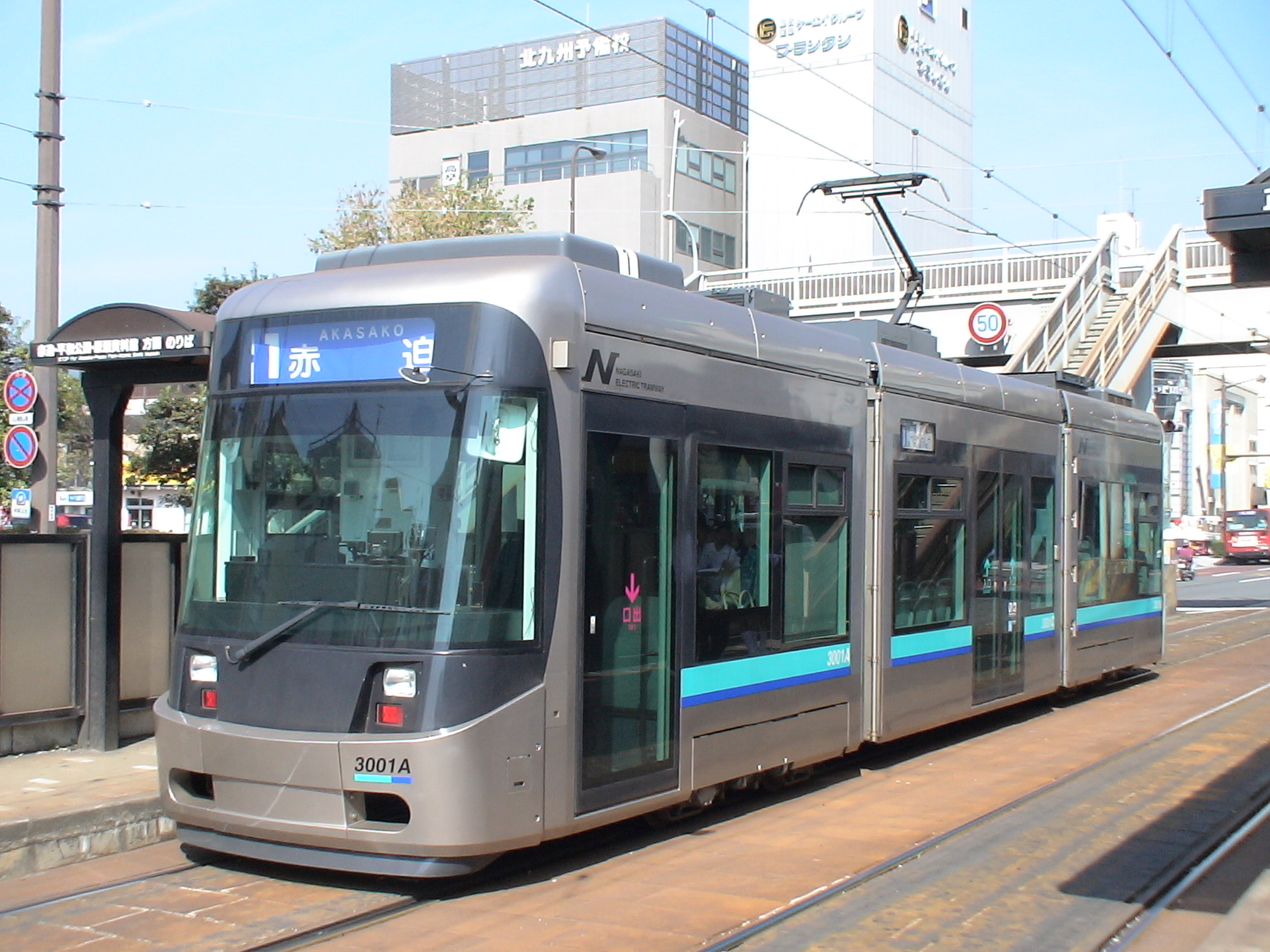 3-part articulated low floor tramcar type 3000 of Nagasaki Electric Tramway, Japan. with rigid axles. developed and built in Japan. since year 2003.